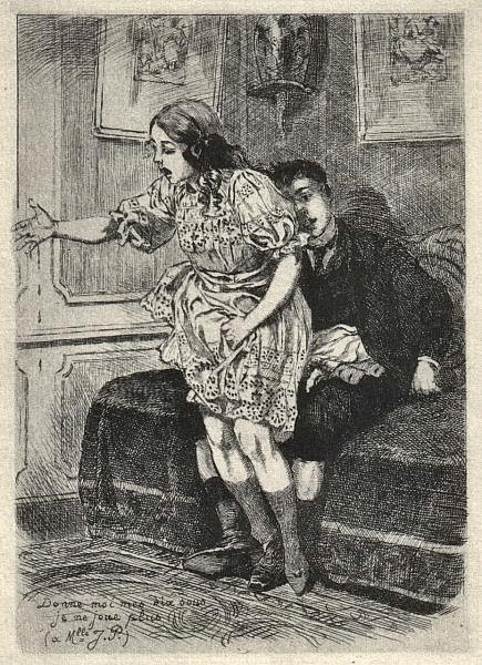 Give me my six sous, I'm not playing anymore